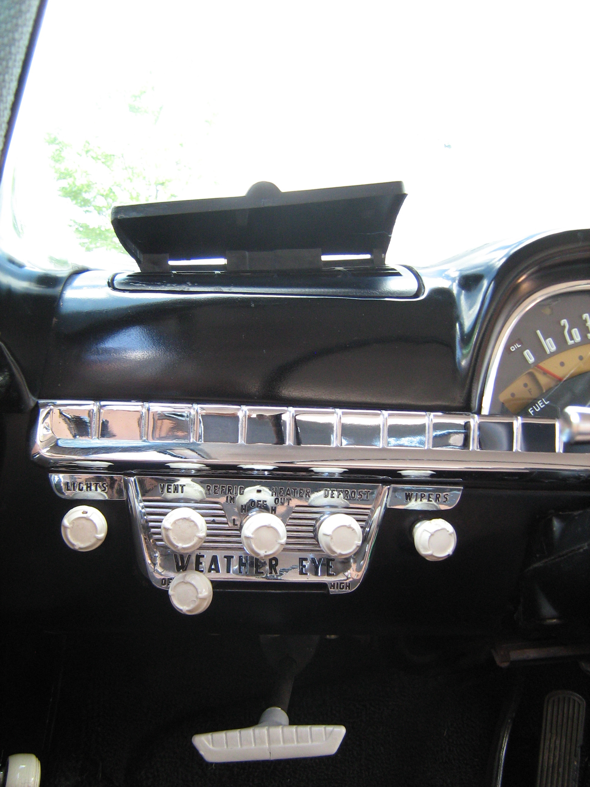 Detail of the "Weather Eye" HVAC system controls in a 1957 Rambler built by American Motors Corporation (AMC). This is a "Cross-Country" station wagon body design in the Custom "trim" model. Factory correct tri-tone exterior paint and interior trim. Six cylinder with Hydramatic automatic transmission. Factory equipped with the "Weather Eye" heating and air conditioning system. Standard roof rack and correct AMC accessories. Picture was taken at the "2011 Potomac Ramblers Club" meeting in Maryland.